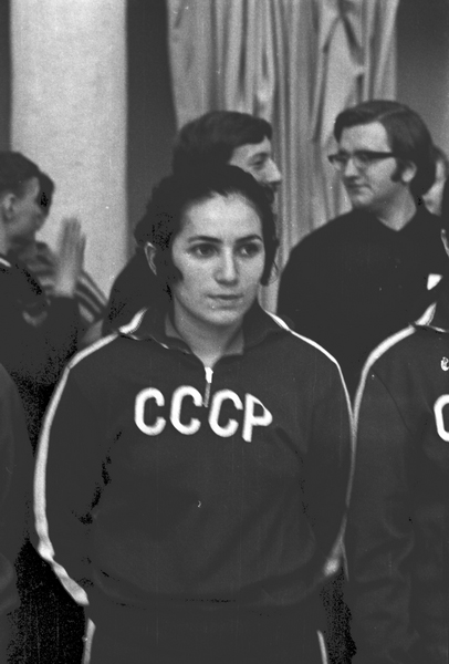 Rita Pogosova in 1972